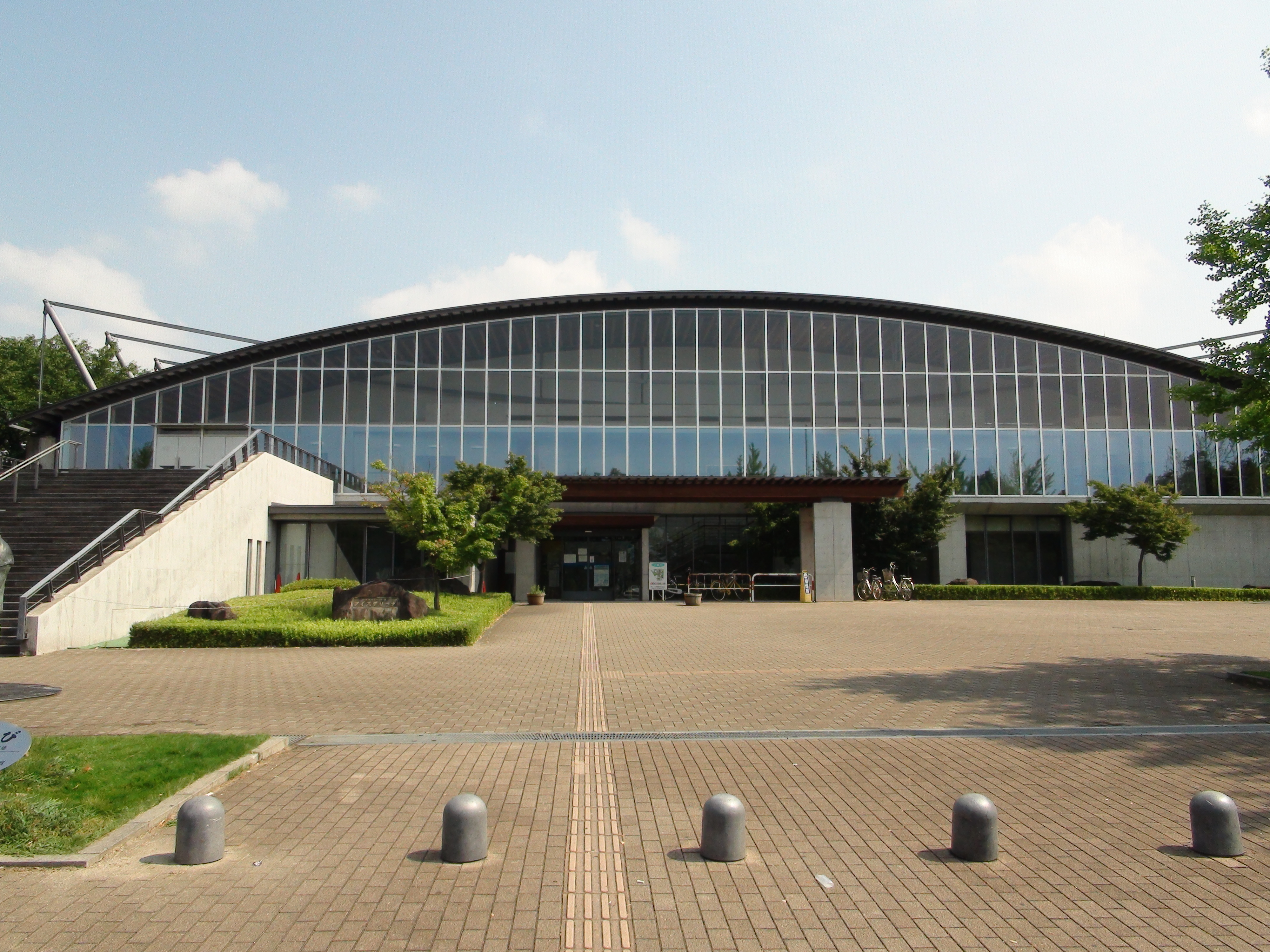 Kose sports park Ice Arena